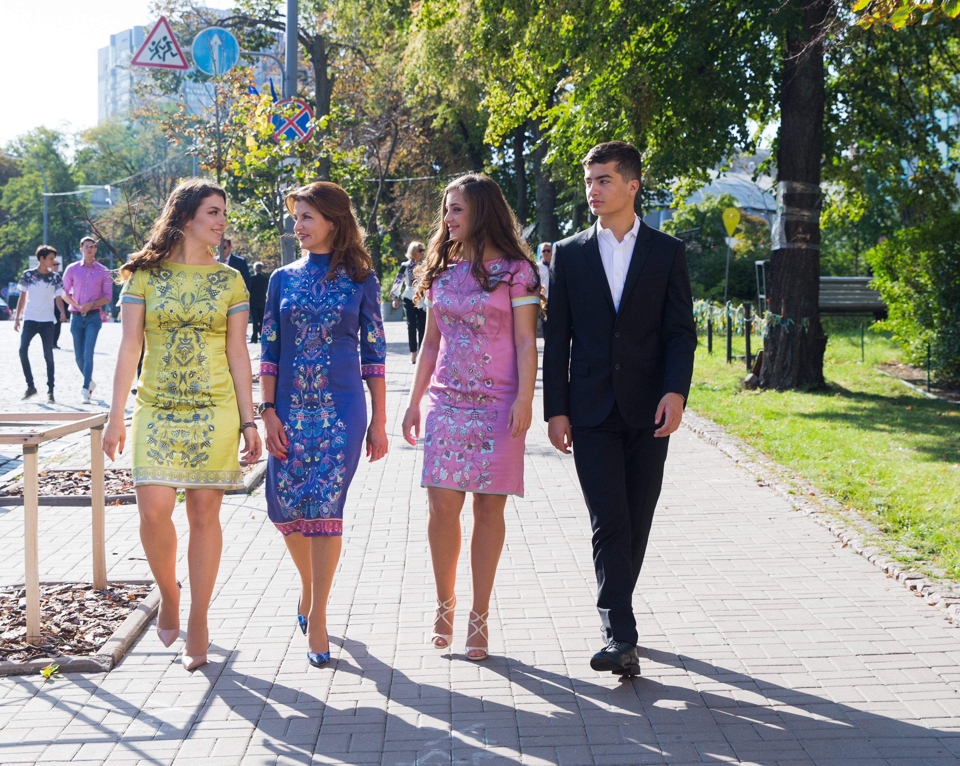 The President's family on the 27th anniversary of Ukraine's Independence - 2018